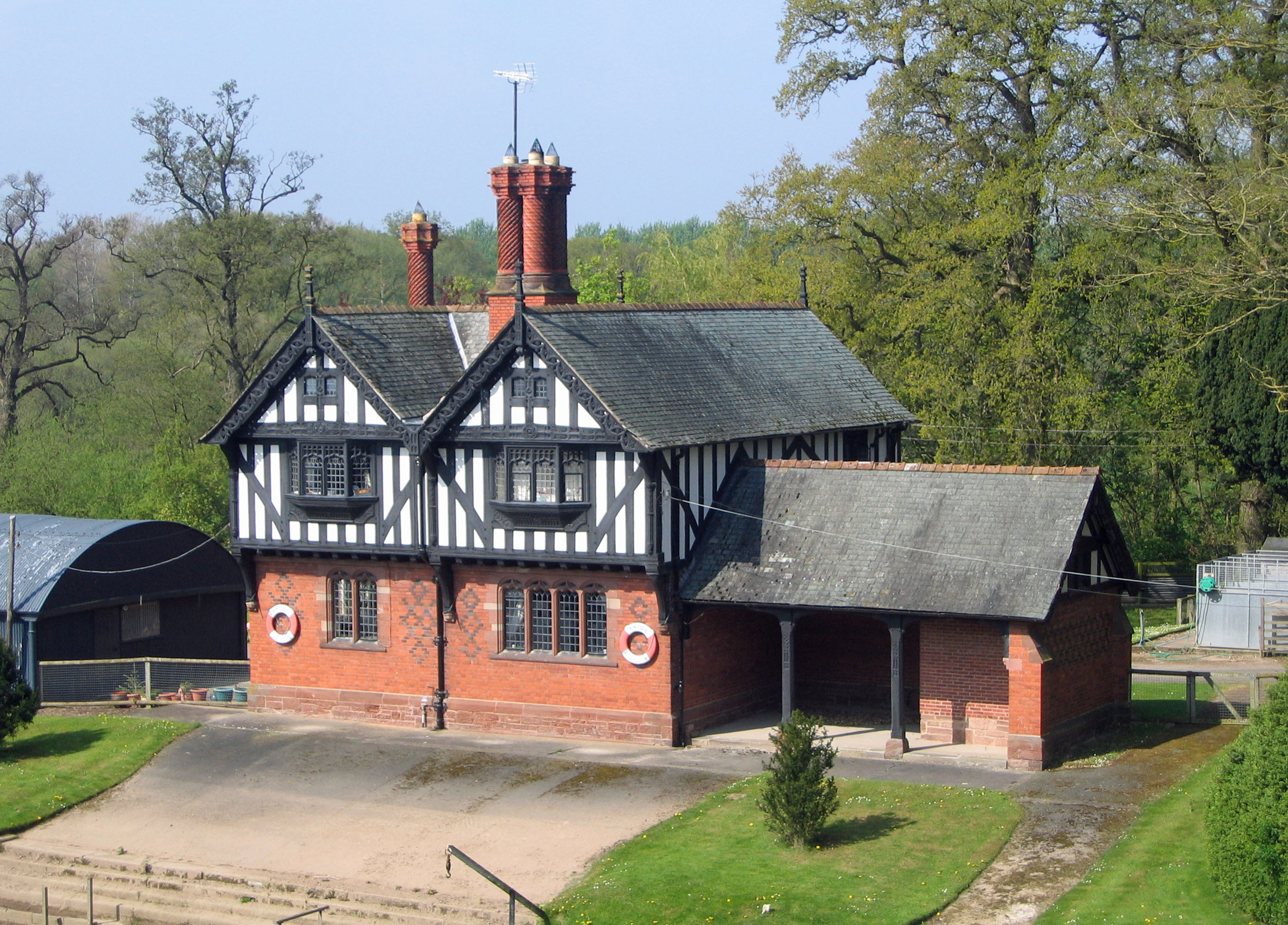 Photograph of the house taken from the Iron Bridge